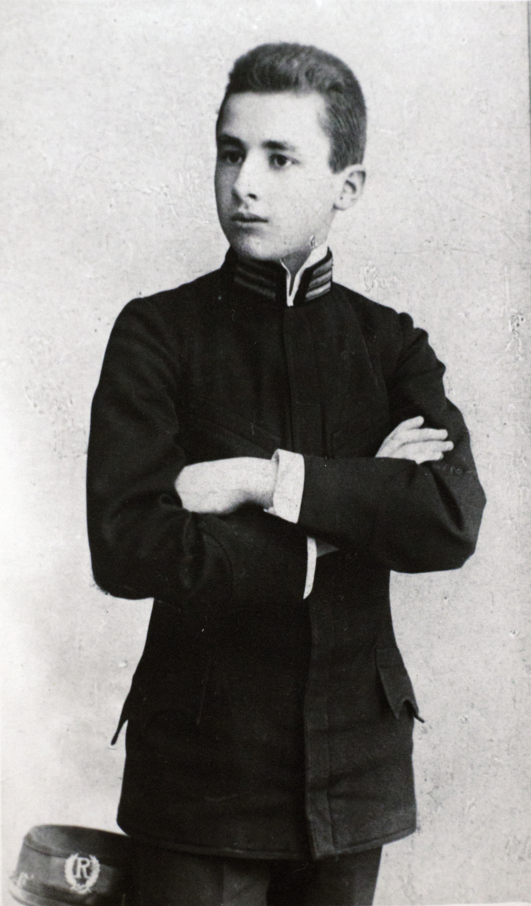 Roman Żurowski high school age, about 1900 - 1903